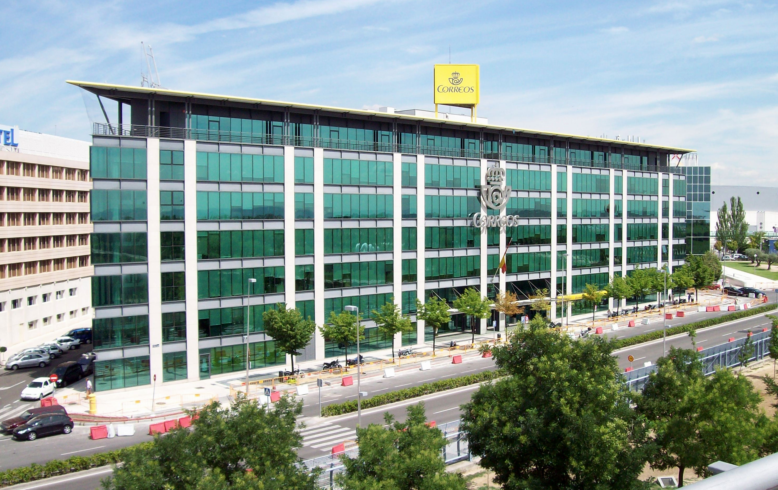 View of Correos (Spain's national postal service) headquarters, in Campo de las Naciones in Madrid.